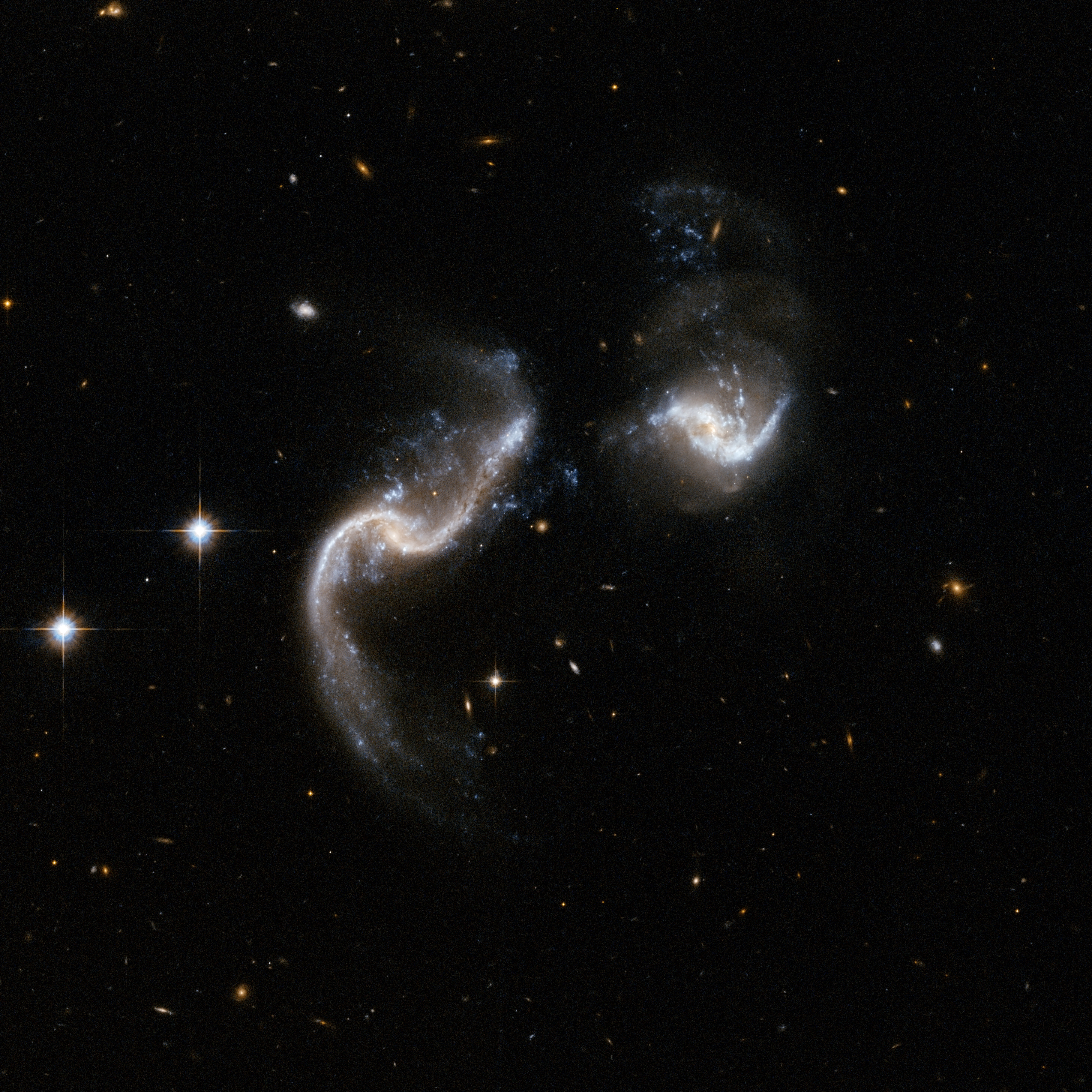 Arp 256 is a stunning system of two spiral galaxies in an early stage of merging. The Hubble image displays two galaxies with strongly disrupted shapes and an astonishing number of blue knots of star formation that look like exploding fireworks. The galaxy to the left has two extended ribbon-like tails of gas, dust and stars. The system is a luminous infrared system radiating more than a hundred billion times the luminosity of our Sun. Arp 256 is located in the constellation of Cetus, the Whale, about 350 million light-years away. It is the 256th galaxy in Arp's Atlas of Peculiar Galaxies. This image is part of a large collection of 59 images of merging galaxies taken by the Hubble Space Telescope and released on the occasion of its 18th anniversary on 24th April 2008. About the objectObject nameArp 256, VV 352, MCG-02-01-051Object descriptionInteracting GalaxiesPosition (J2000)00 18 50.53 -10 22 05.3ConstellationCetusDistance350 million light-years (100 million parsecs)About the dataData descriptionThe Hubble image was created using HST data from proposal 10592: A. Evans (University of Virginia, Charlottesville/NRAO/Stony Brook University)InstrumentACS/WFCExposure date(s)May 22, 2002Exposure time33 minutesFiltersF435W (B) and F814W (I)